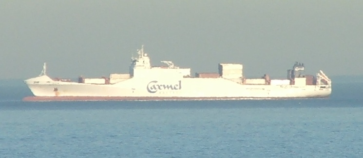 Refregerated container vessel Carmel Ecofresh IMO Number: 9267534 MMSI Number: 310493000 Callsign: ZCDQ4 Length: 186 m Beam: 25 m